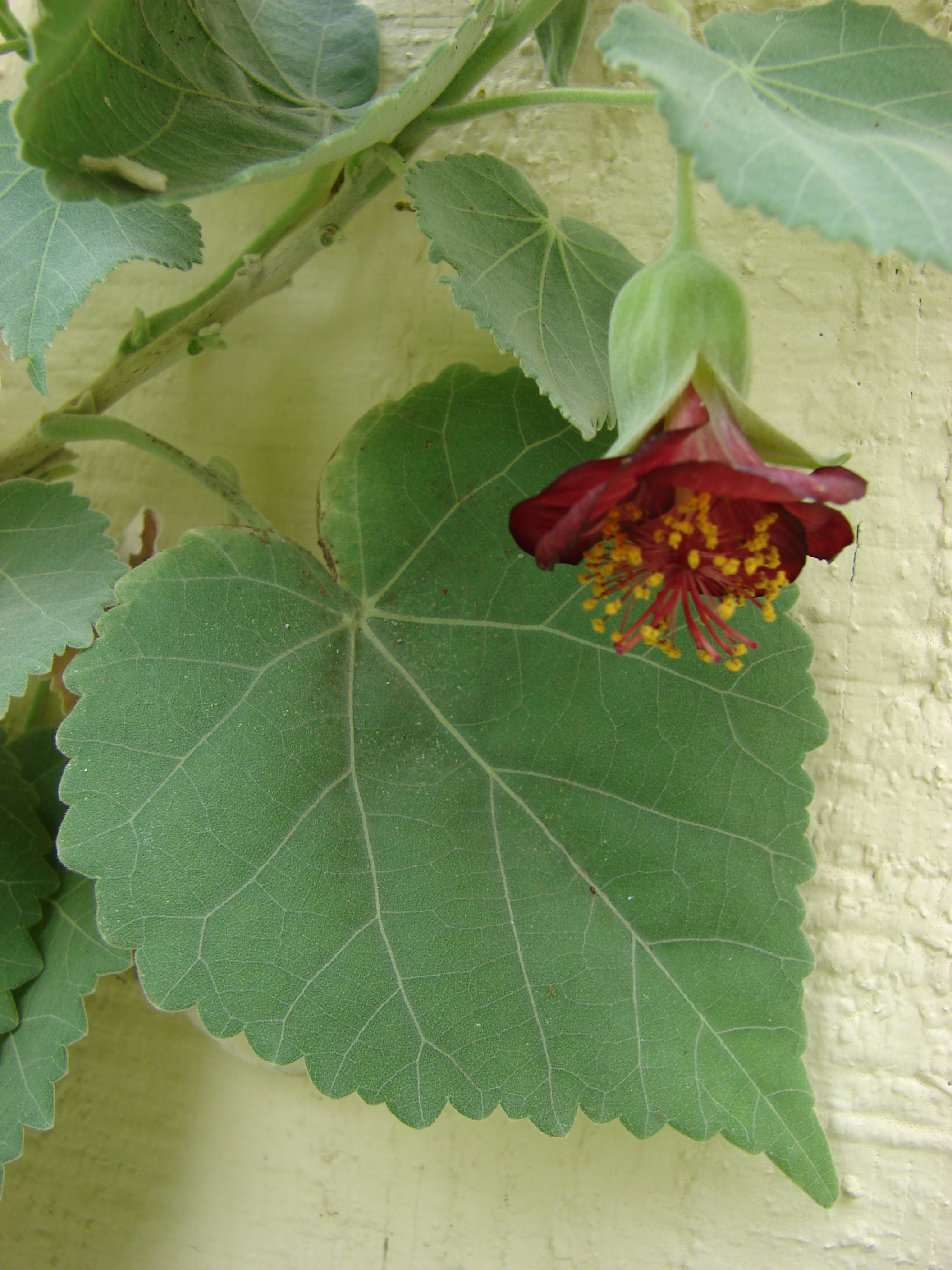 Abutilon menziesii (flower and leaves). Location: Maui, Kula Ace Hardware and Nursery